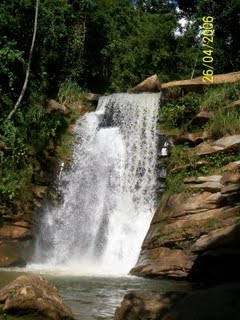 cachoeira dionisio